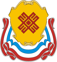 Mariy-El, coat of arms (2006)